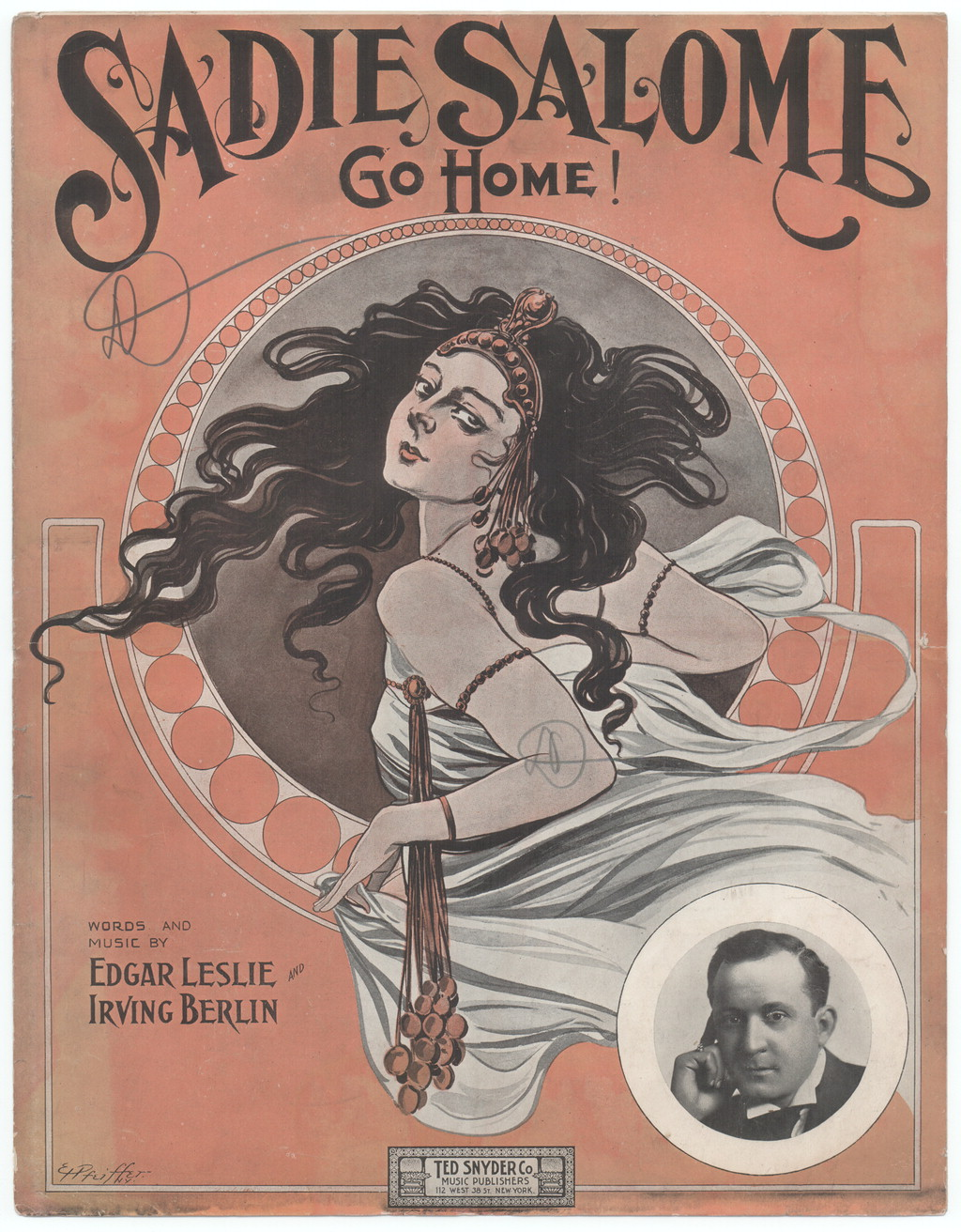 "Sadie Salome (Go Home)" sheet music (page 1 of 5)